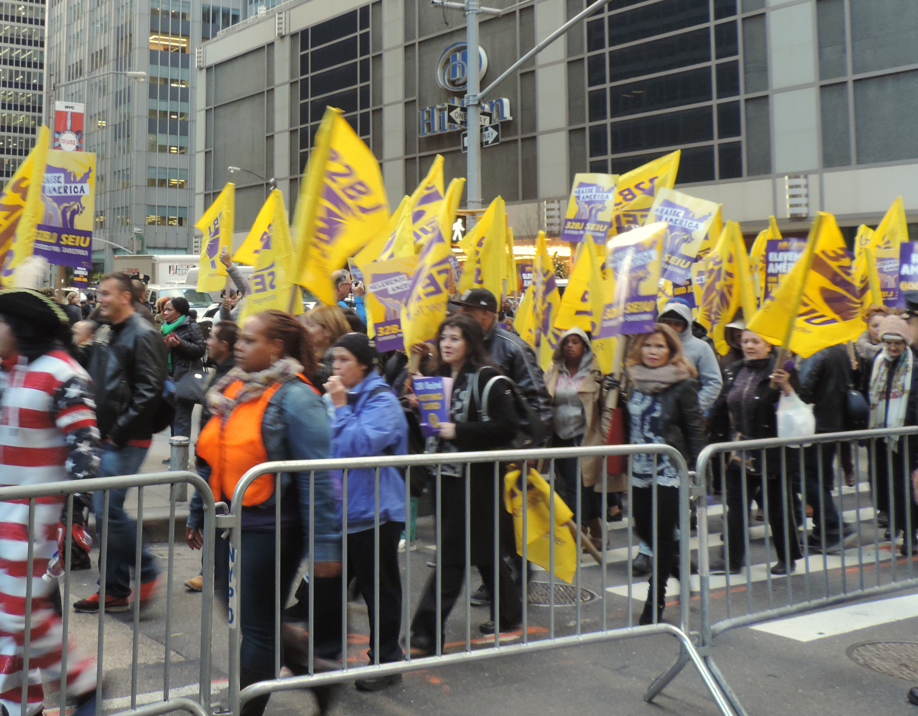 Looking northwest as parade goes down 6th Avenue